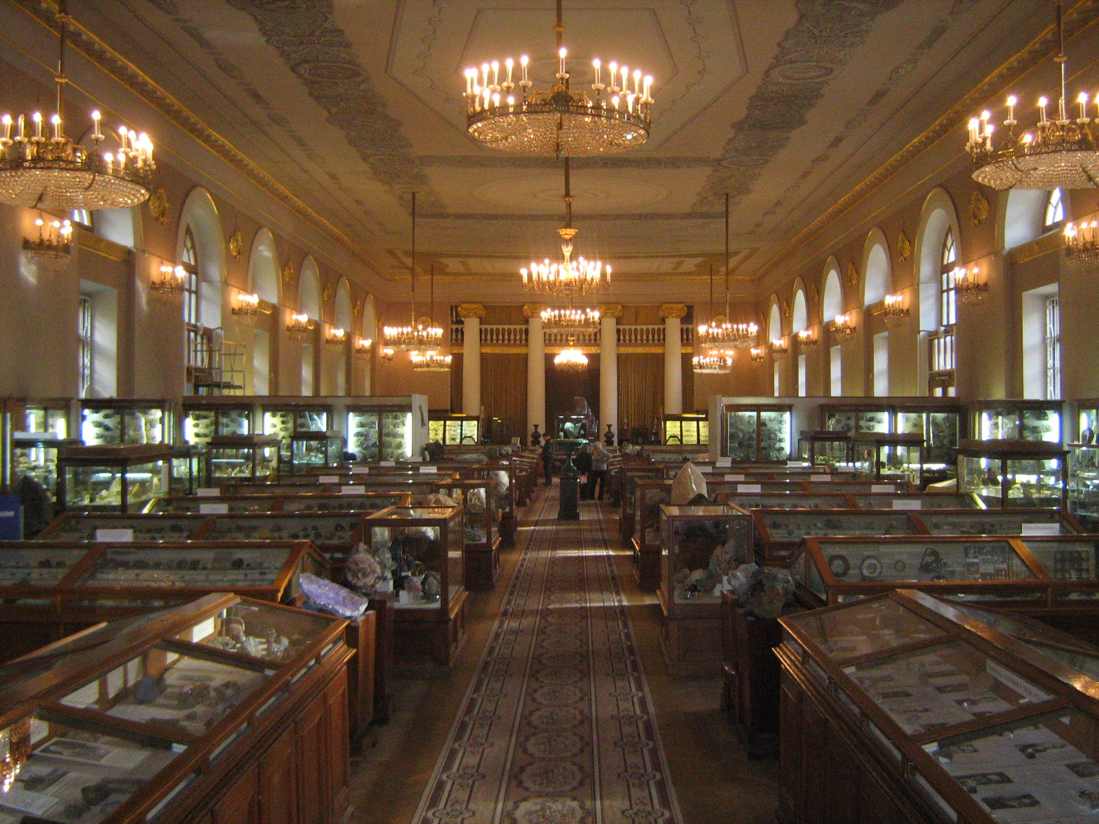 Mineral collection displayed in the Fersman Mineralogical Museum — in Moscow.